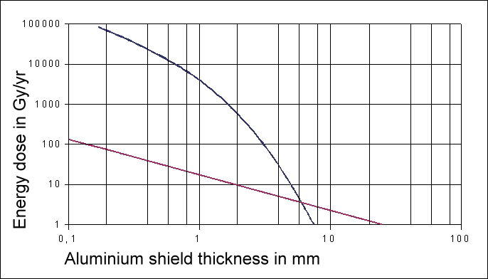 Radiation in geostationary orbit behind aluminium shield of different thickness, height above earth surface about 36'000 km. dark line: contribution by electrons. light line: contribution by Bremsstrahlung. Own painting based on a publication from 1970. Figures gives only indication for magnitude.